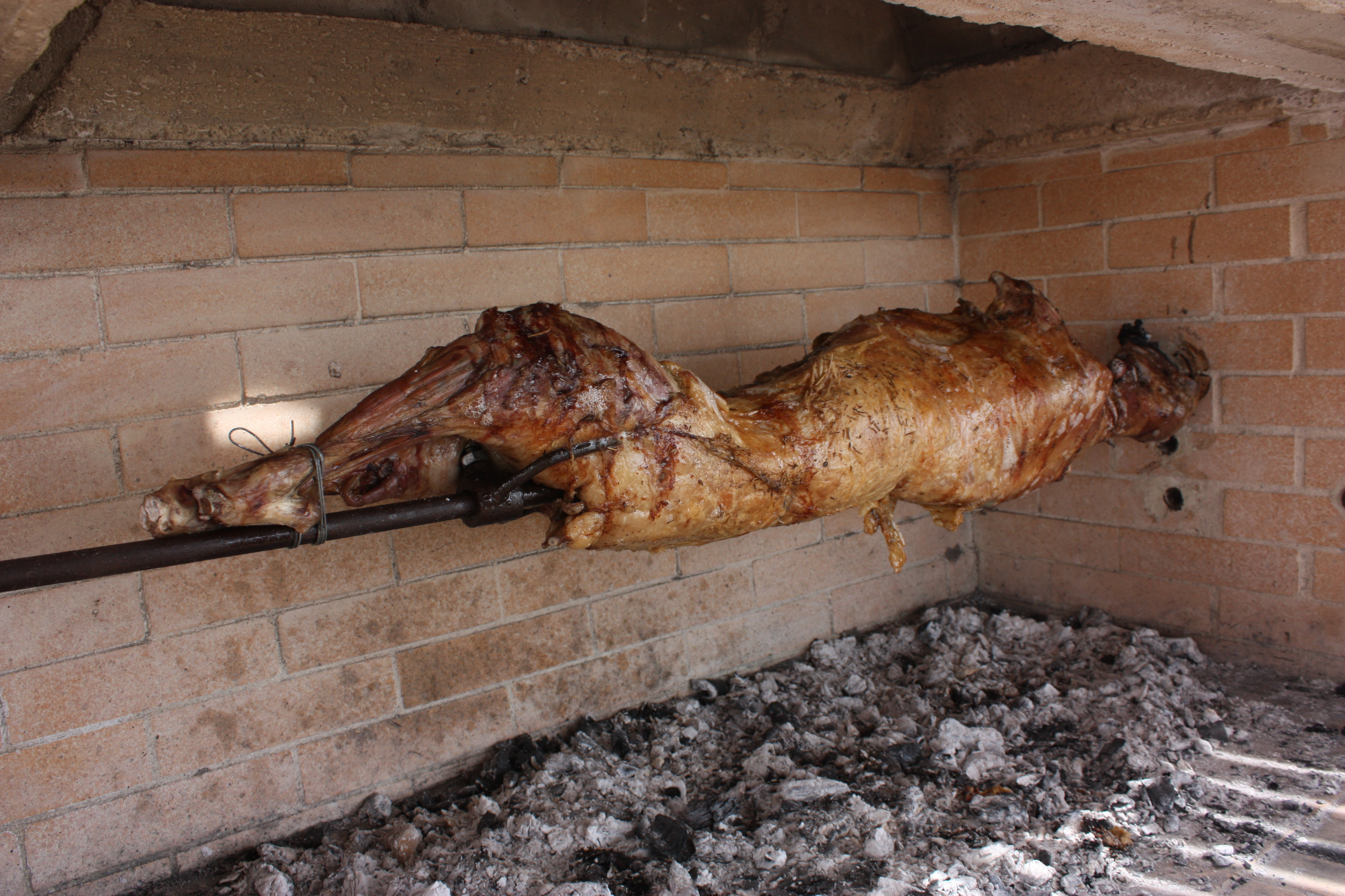 Easter Lamb, Greece